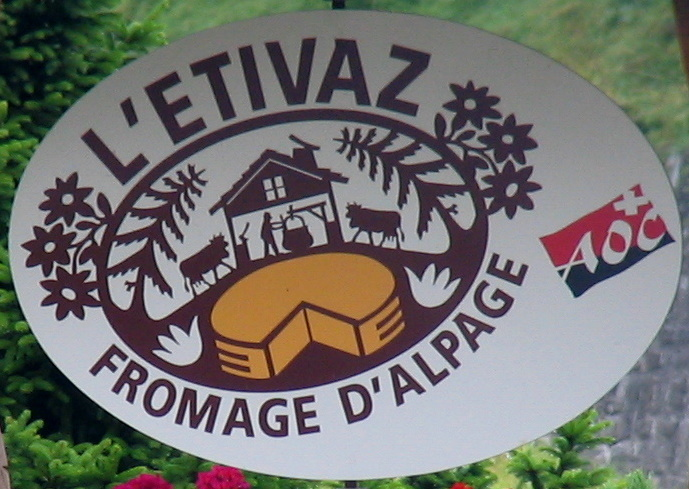 Street sign in L'Etivaz: a village in Switzerland and a cow's-milk cheese (product with protected designation of origin)